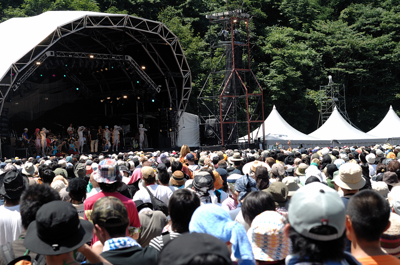 White stage at Fuji Rock Festival